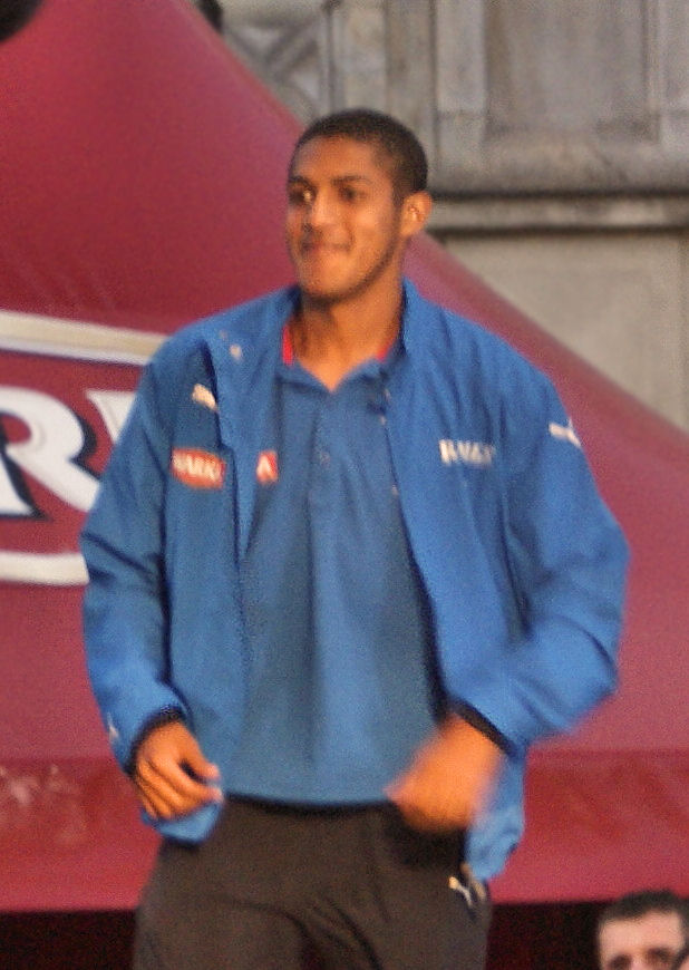 Anderson Cueto - football player - Lech Poznań